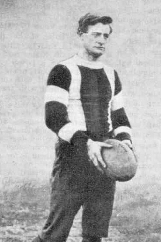 Photograph of Bill Woodcock from the 1910 Weekly Times Victorian Footballer Postcard Series